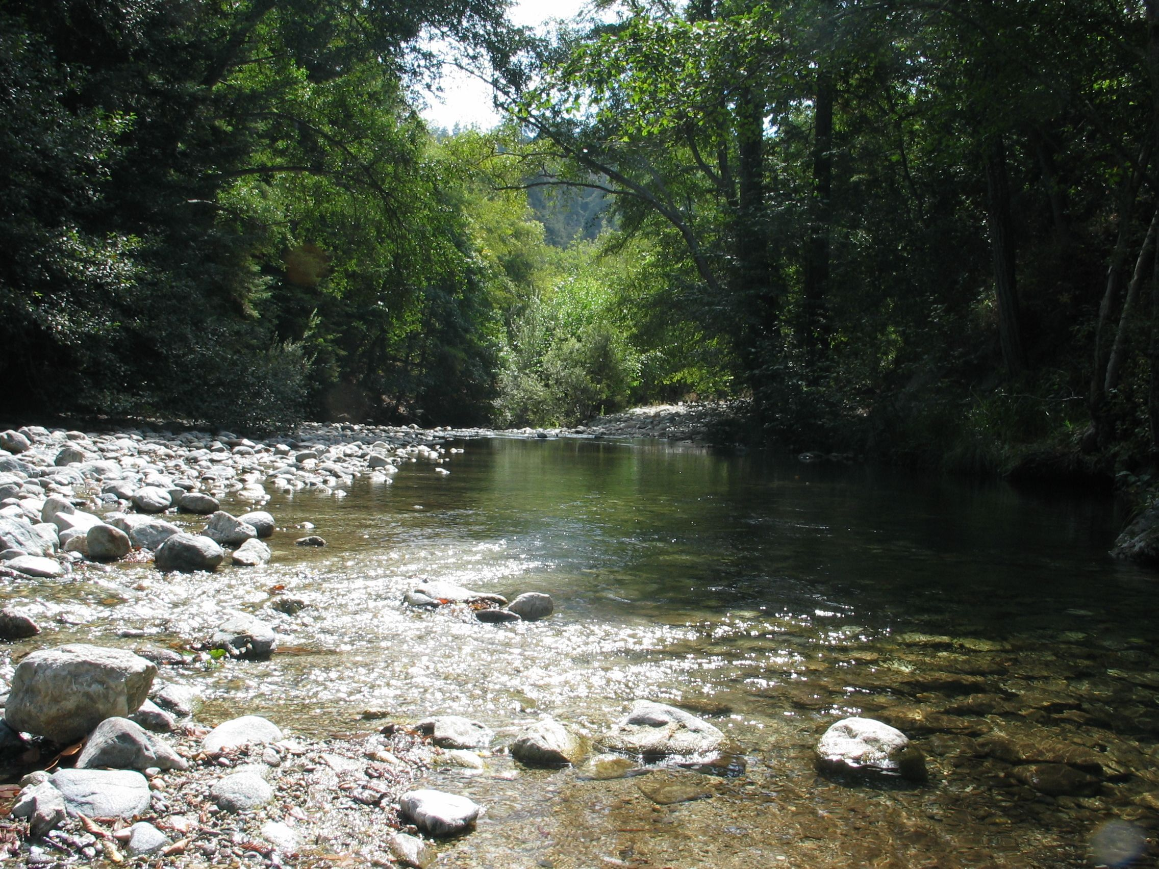 Image title: Big sur campground stream flowing through trees Image from Public domain images website